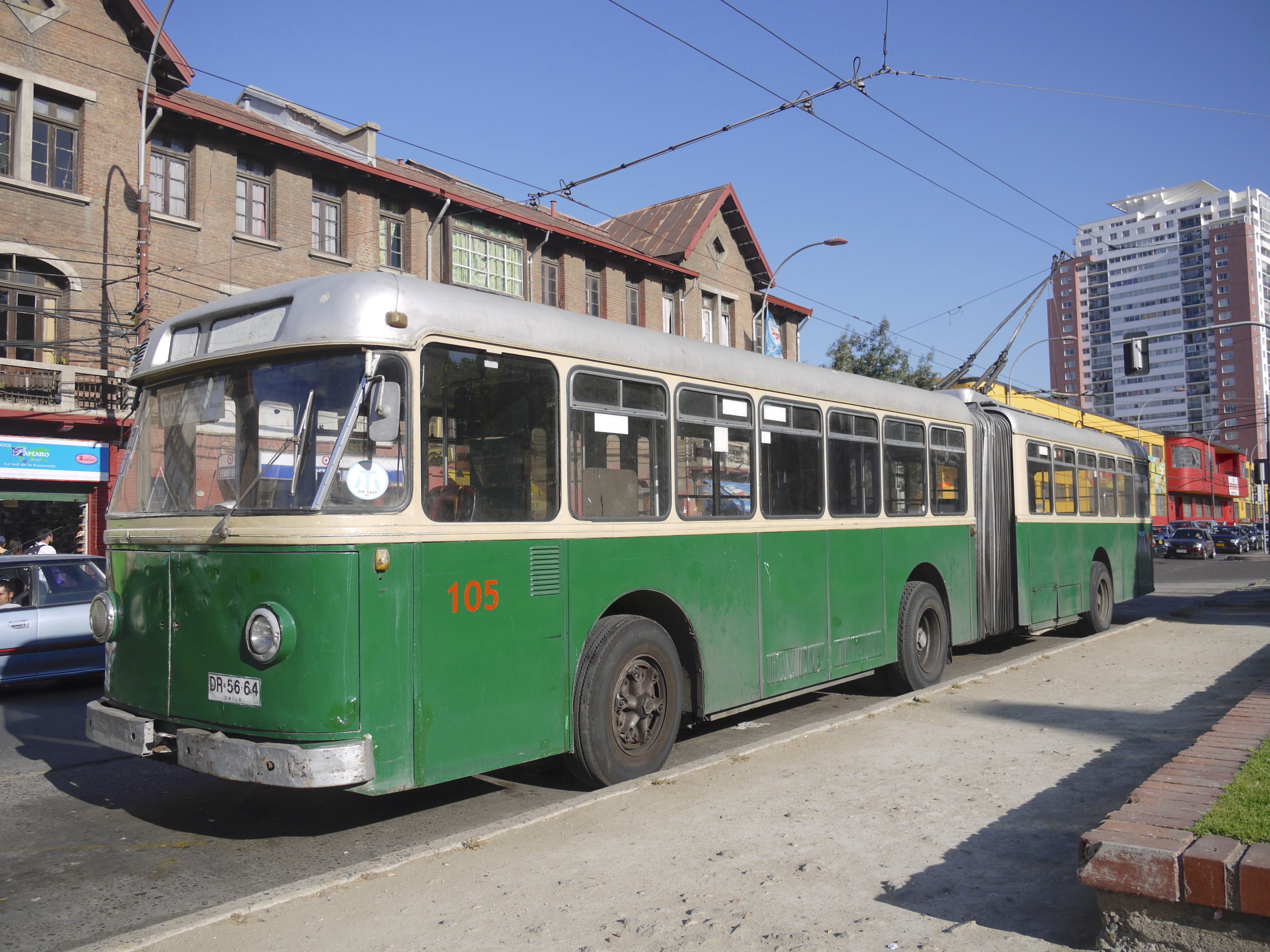 Ex-Zürich FBW trolleybus 105 at Barón terminus (on Avenida Argentina) in Valparaíso, Chile, in January 2015. Built in 1959, this FBW trolleybus entered service on the Valparaíso trolleybus system in 1991 and served the system for many years, but was used in service the last time at the end of May 2015, about four months after this photo was taken.